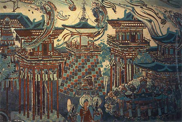 Architecture of the T'ang Dynasty from a Buddhist fresco in Mo-kao Caves.